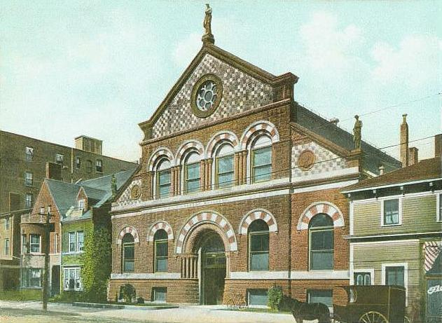 Old Library, Portland, ME; from a c. 1905 postcard.